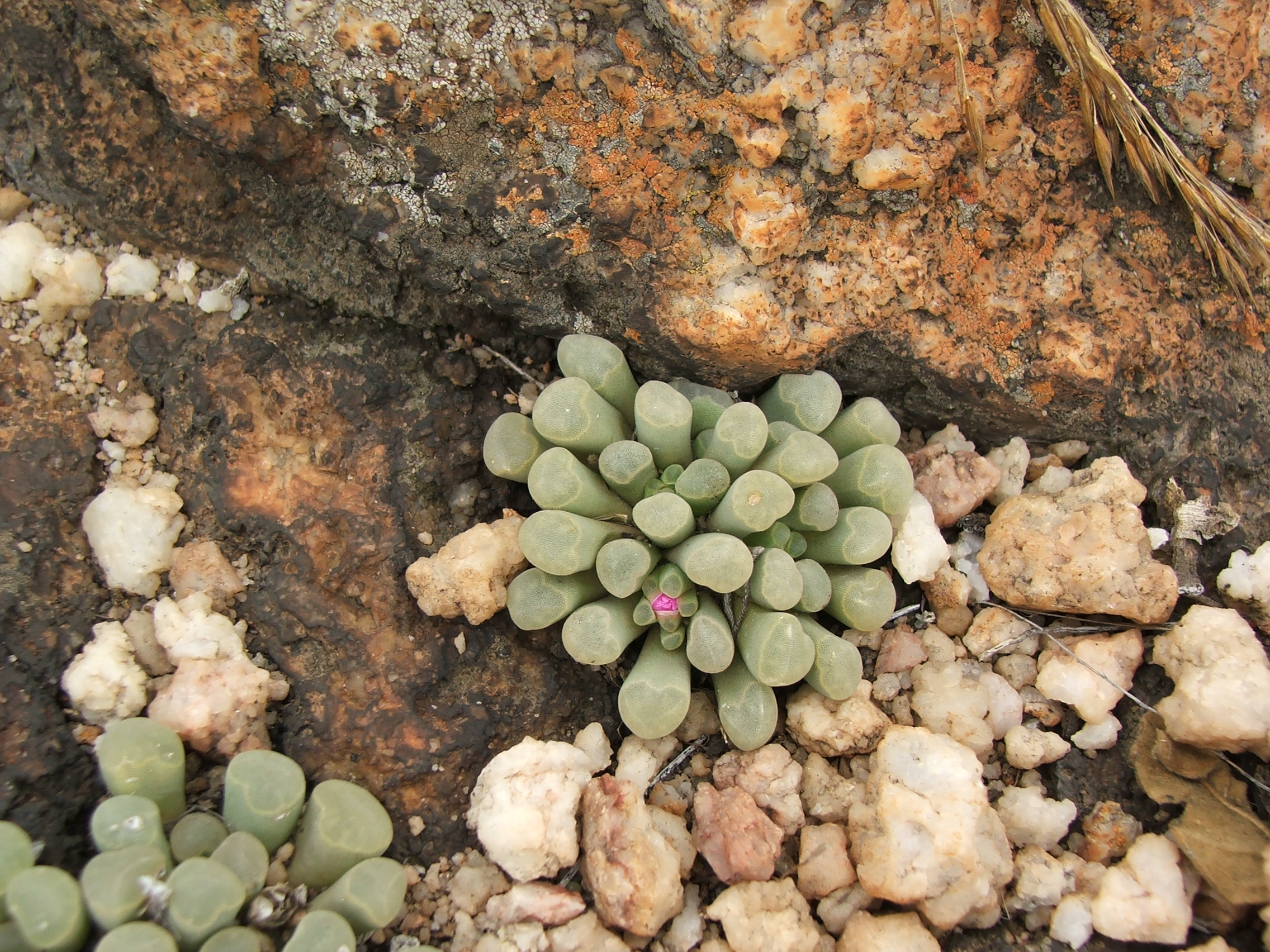 Frithia pulchra growing wild in its natural habitat